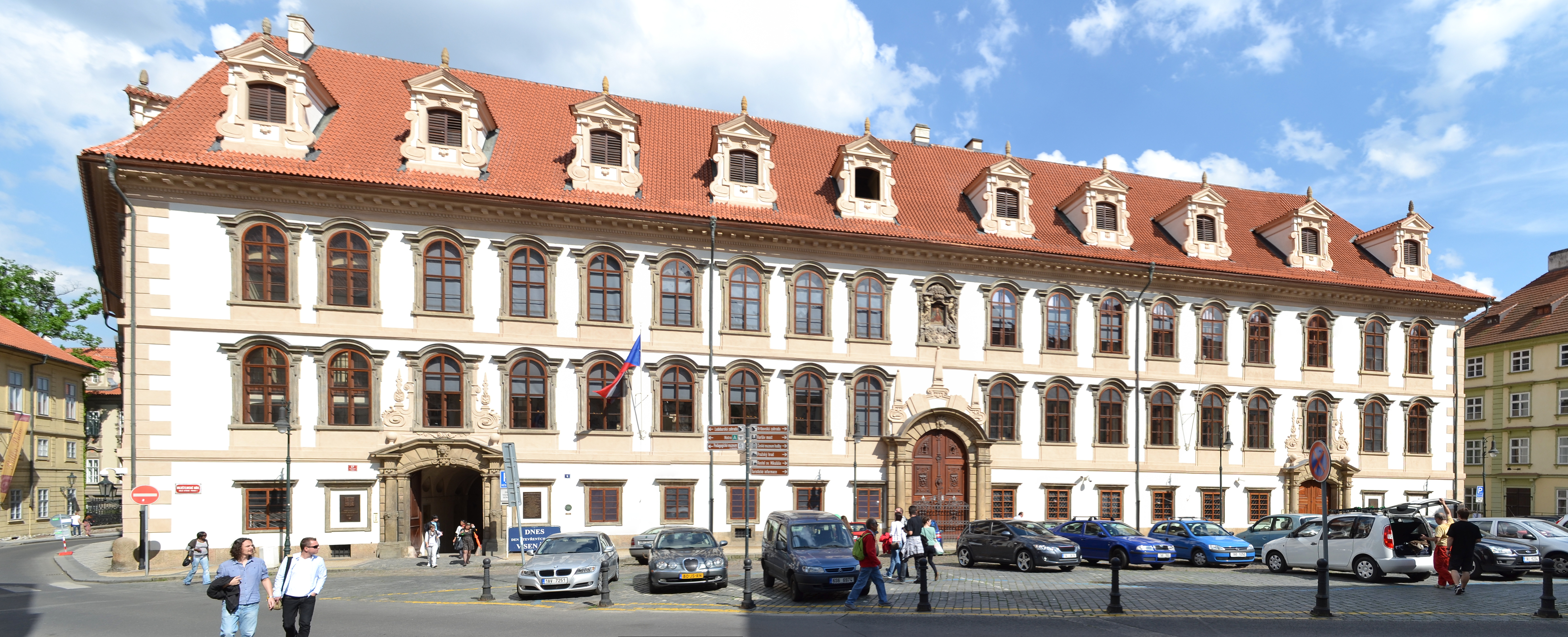 Panorama of the Valdstejn palace, Vadštejnské náměstí, Prague